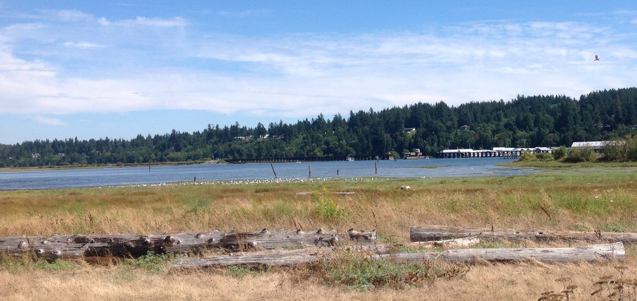 Northeast-facing view of Mud Bay from Blackie Spit Park in Crescent Beach, Surrey, British Columbia, Canada